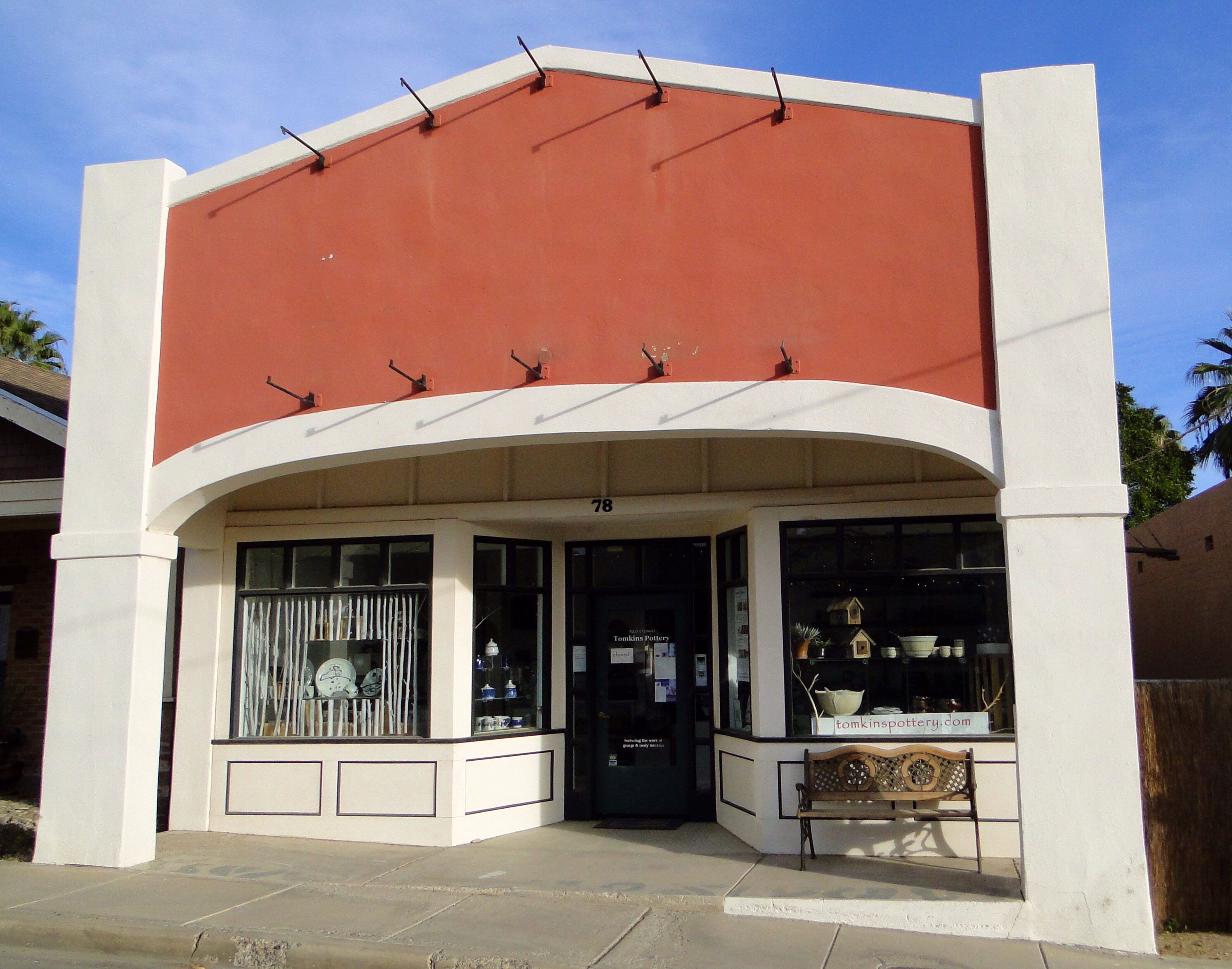 Venegas Store, Brinley Historic District, 78 2nd Street, Yuma, Arizona (designated as a significant property # Yu 220)